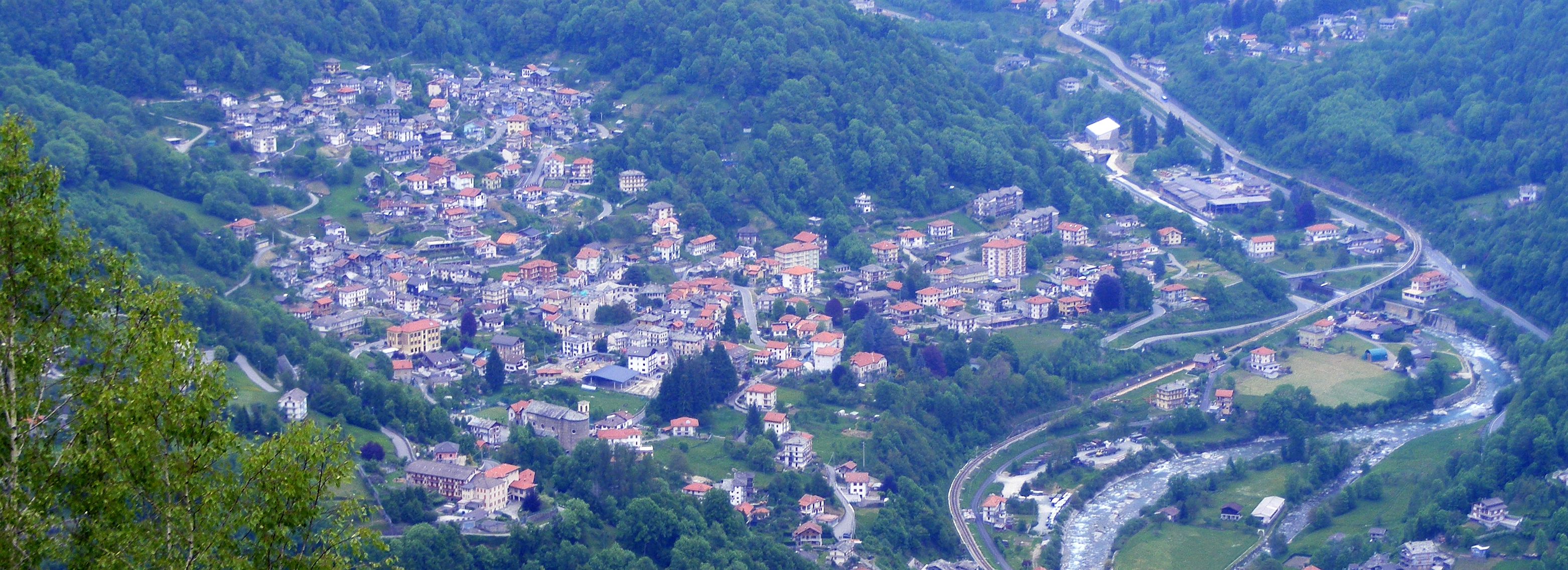 Mezzenile (TO, Italy): panorama from Monte Crestà (1.173 m);on its right Stura di Lanzo creek